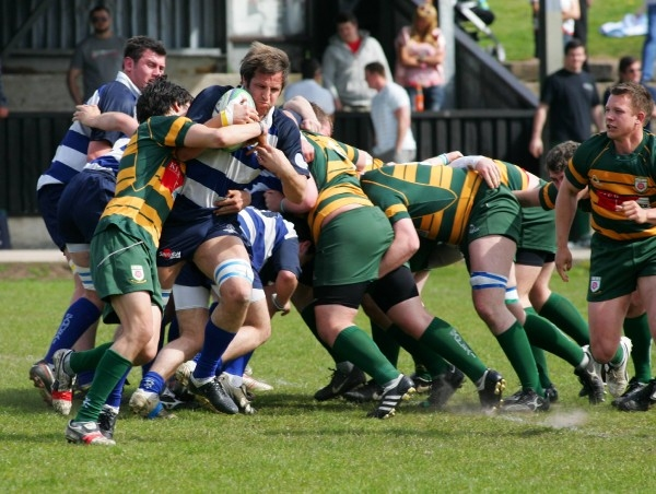 West Park vs Darlington